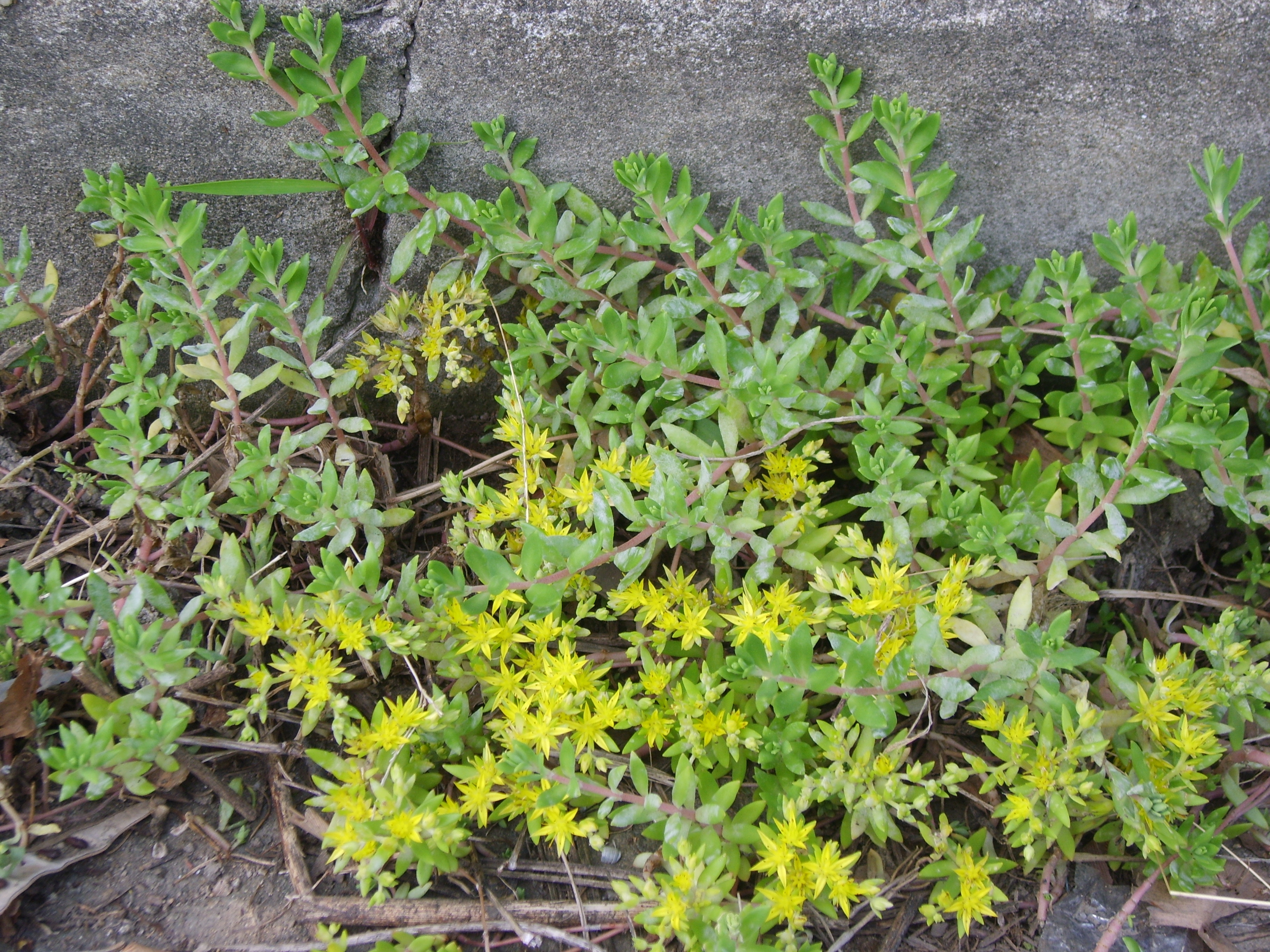 Sedum sarmentosum in Bupyung, Korea